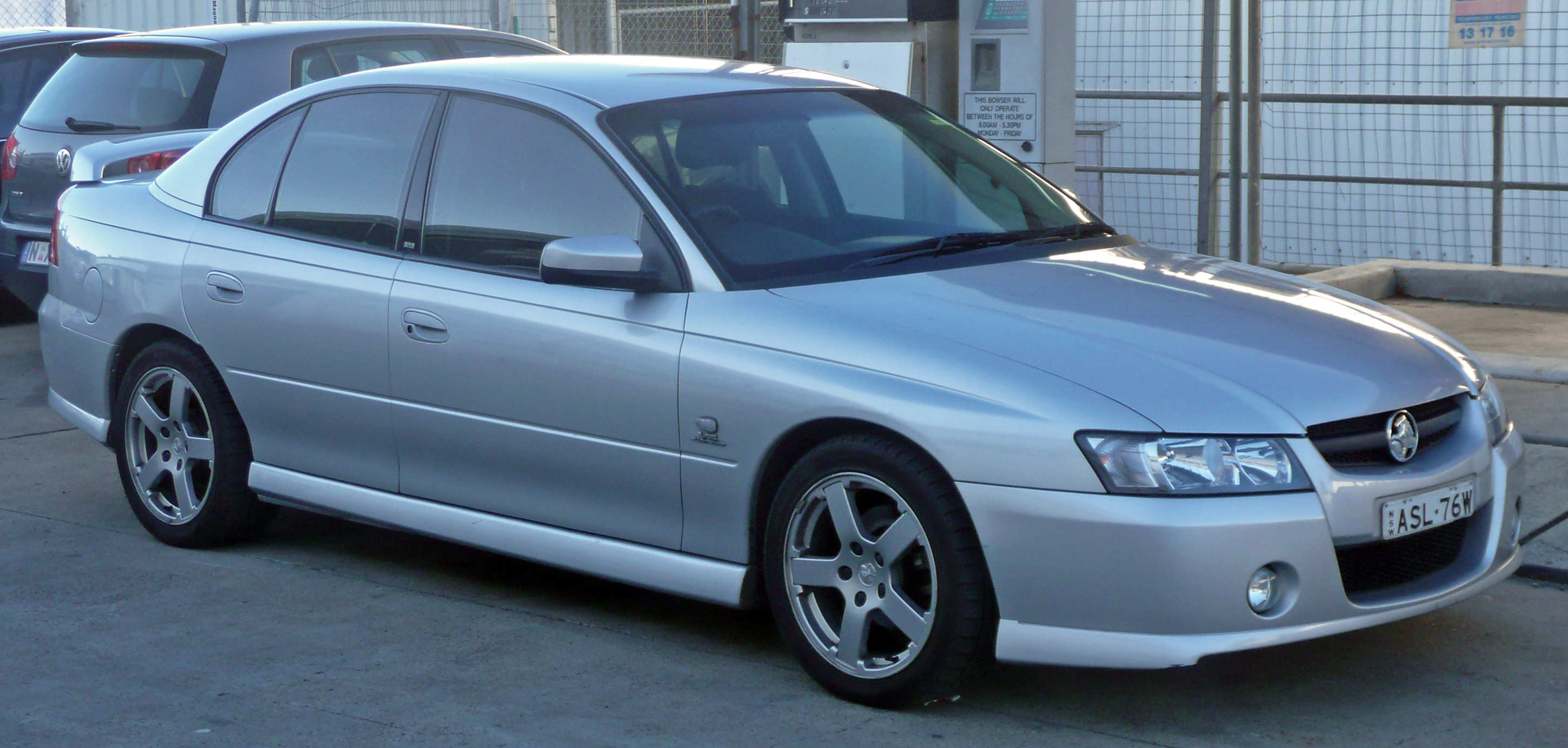 2004–2006 Holden Commodore (VZ) SV6 sedan. Photographed in Kirrawee, New South Wales, Australia.